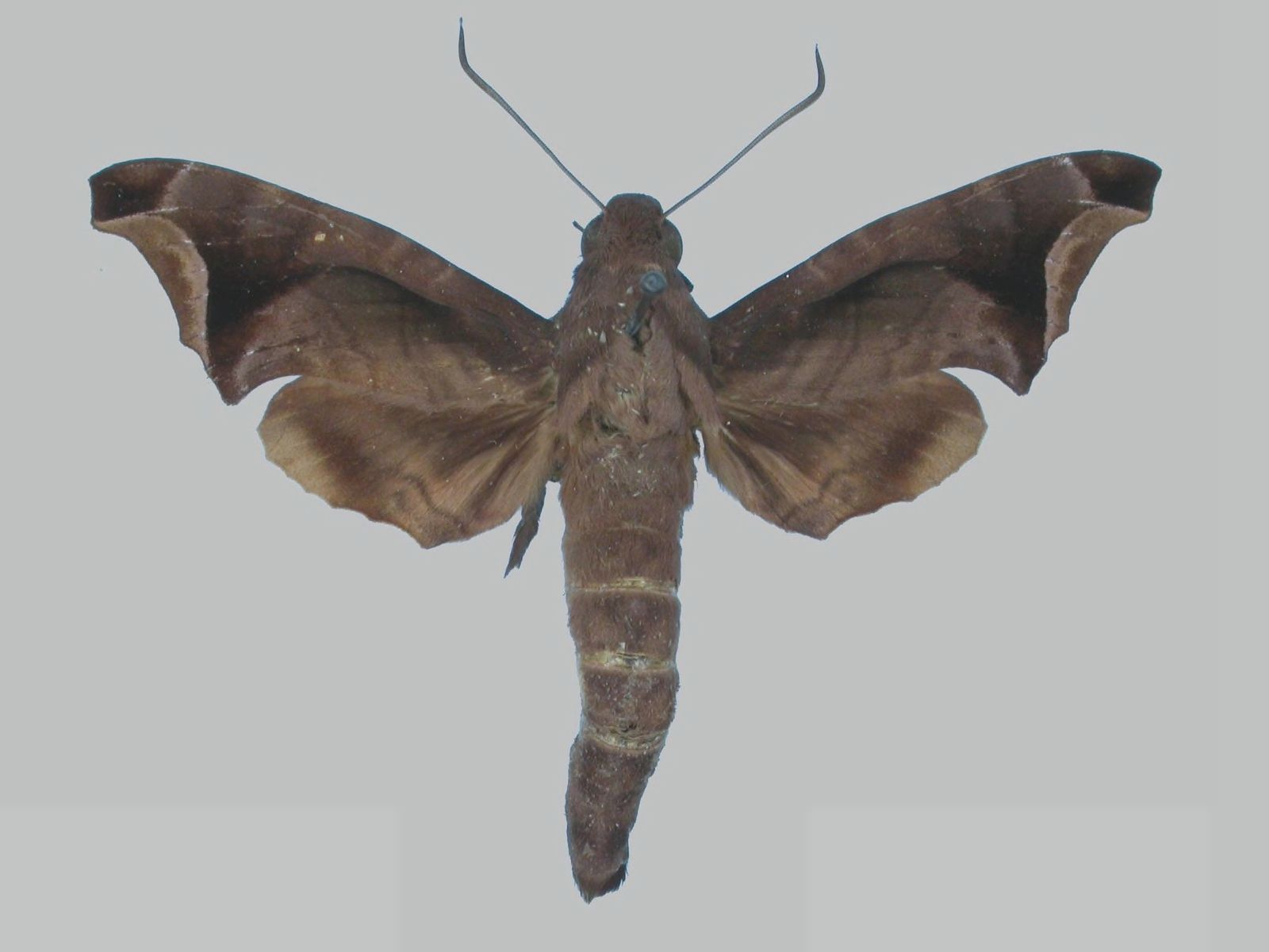 Type specimen of Enyo bathus bathus, BMNHE273031 male upperside